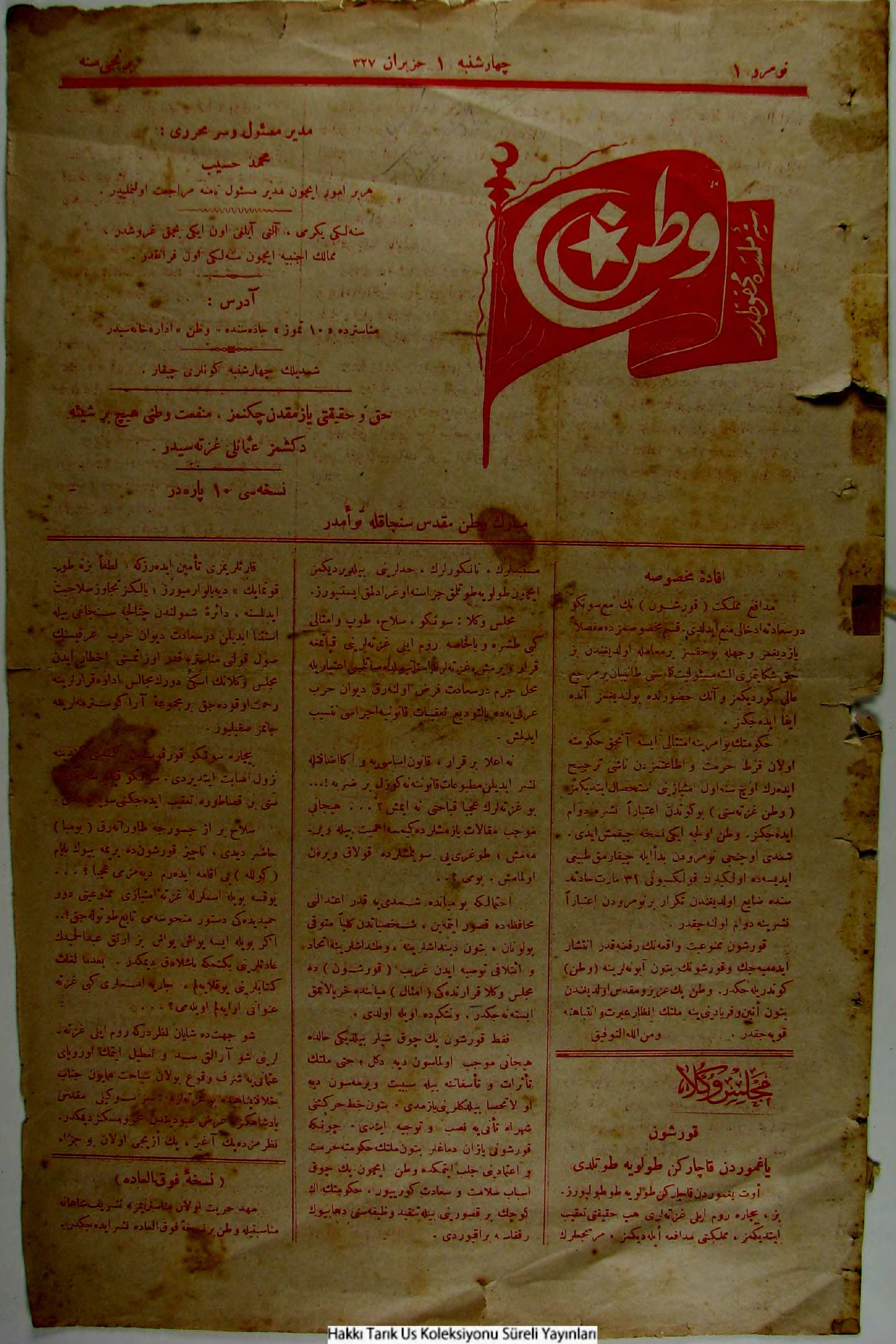 Vatan 1911-06-01